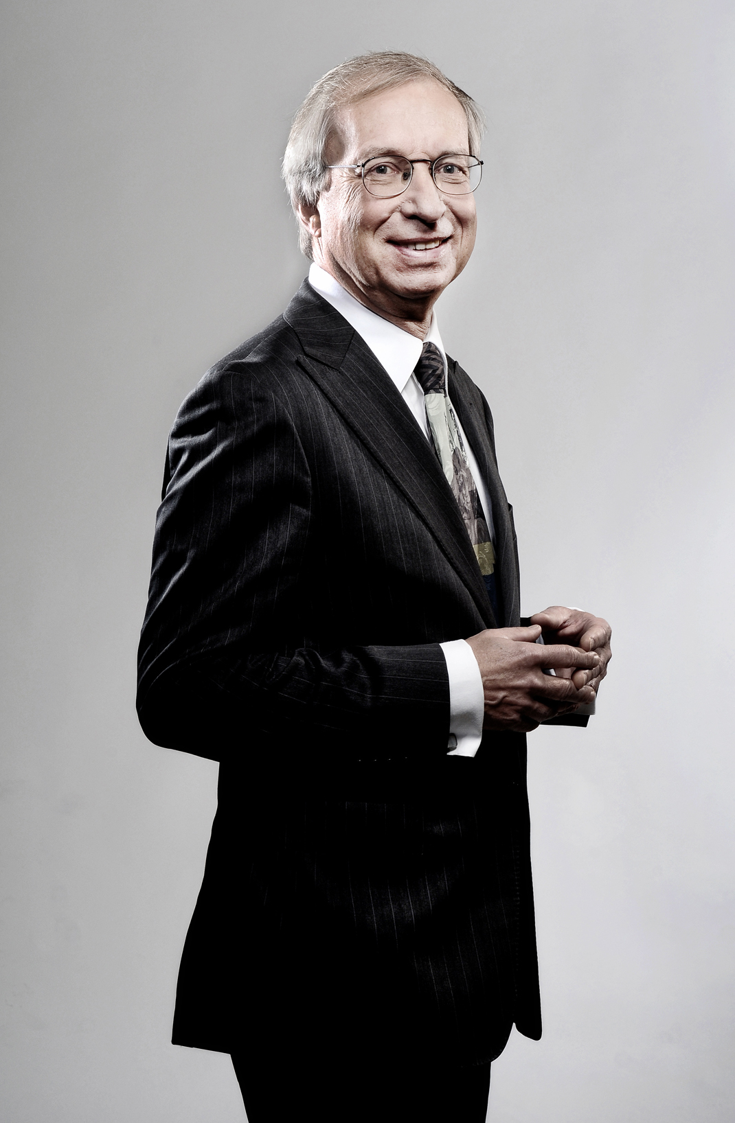 Paul W. Hertin